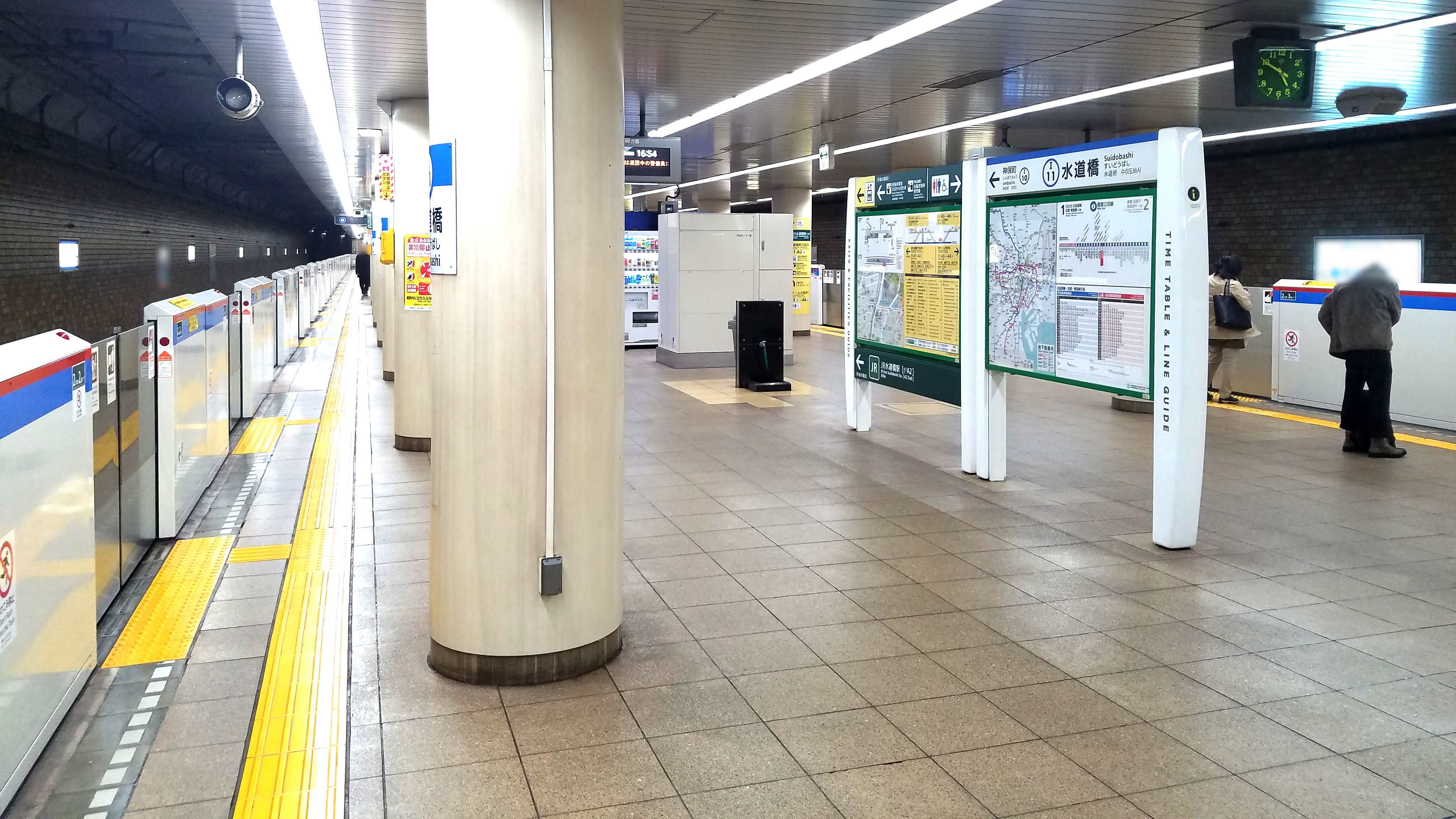 The platform at Suidōbashi Station on the Toei Mita Line in Bunkyō city, Tokyo, Japan